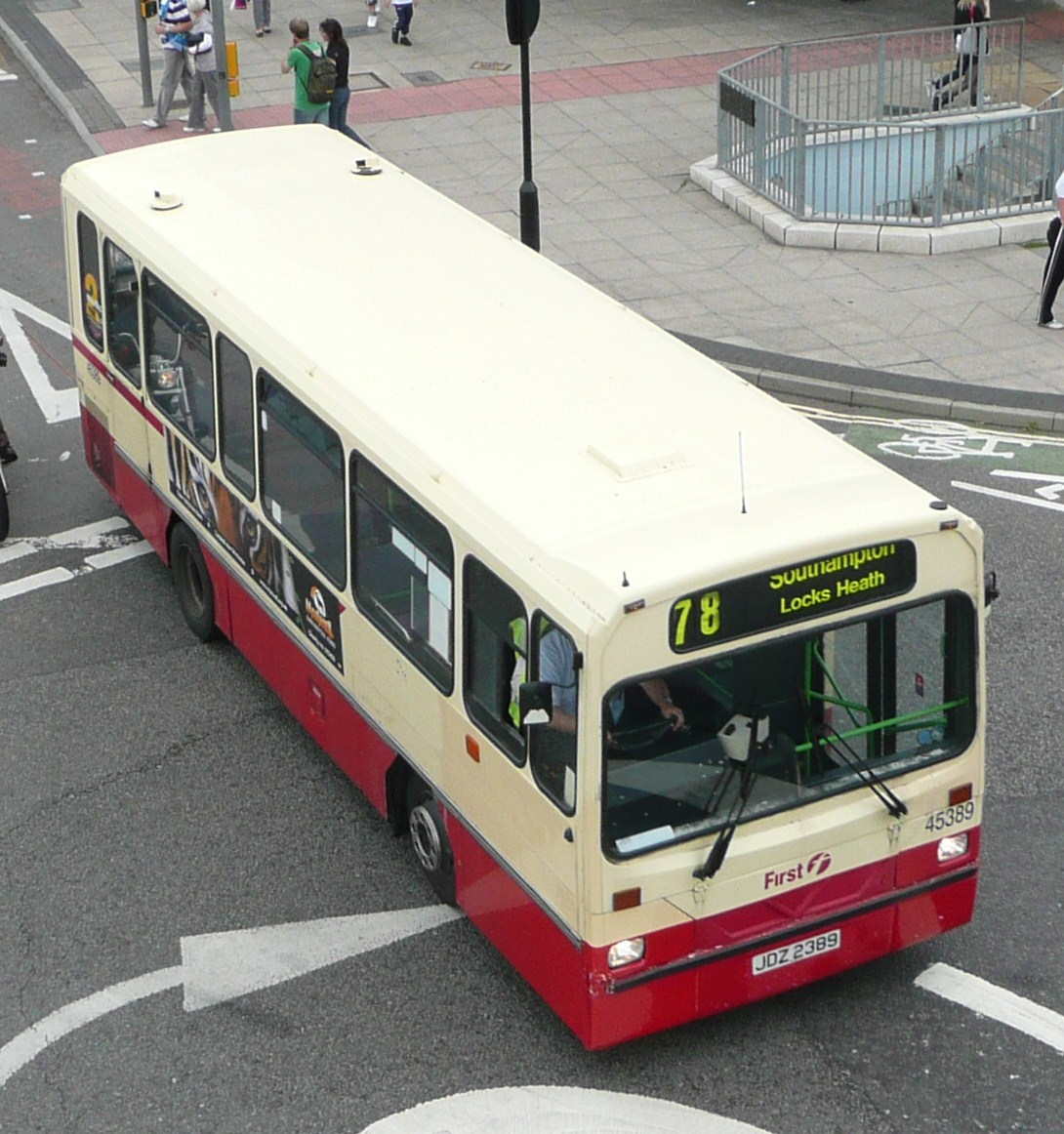 First Hampshire & Dorset 45389 (JDZ 2389), a Dennis Dart/Wright Handybus at Arundel Circus, Southampton, on route 78. This was the last of 15 of these buses that First ran to be withdrawn, and was the last bus in the fleet to wear First Provincial Red and Cream livery.